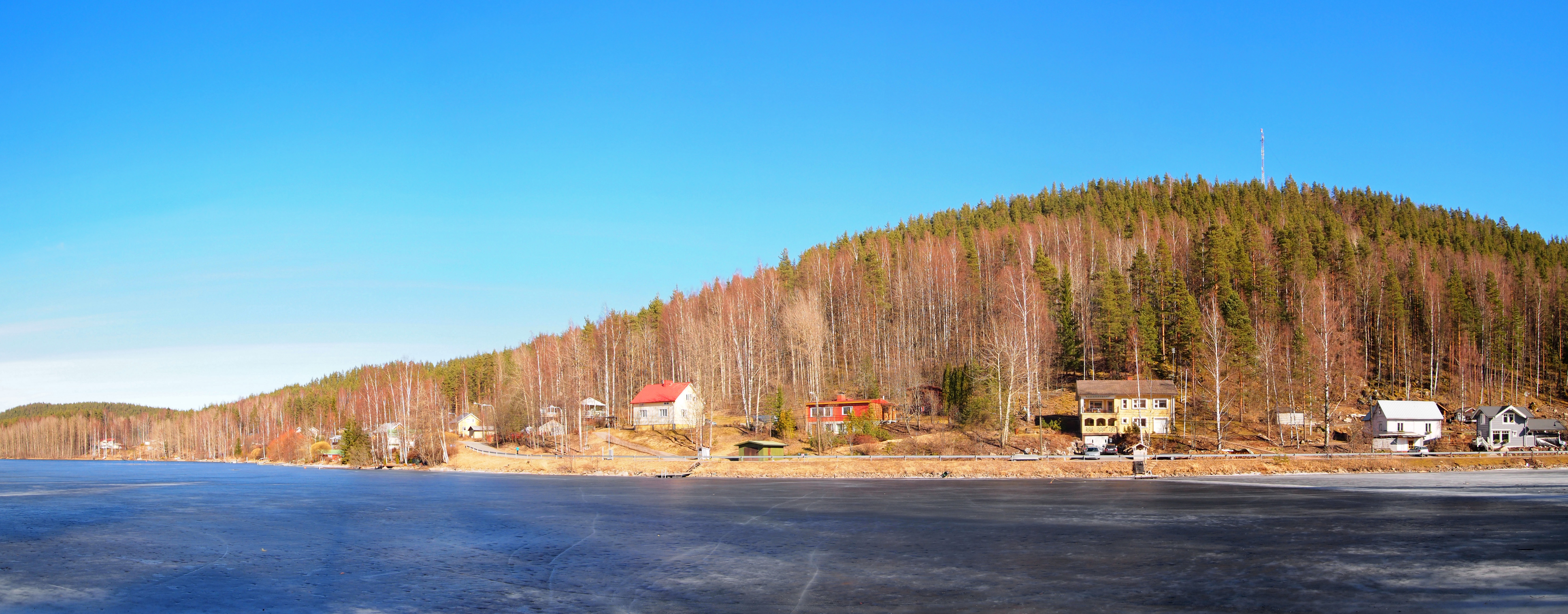 View to the district Kanavuori, Jyväskylä.